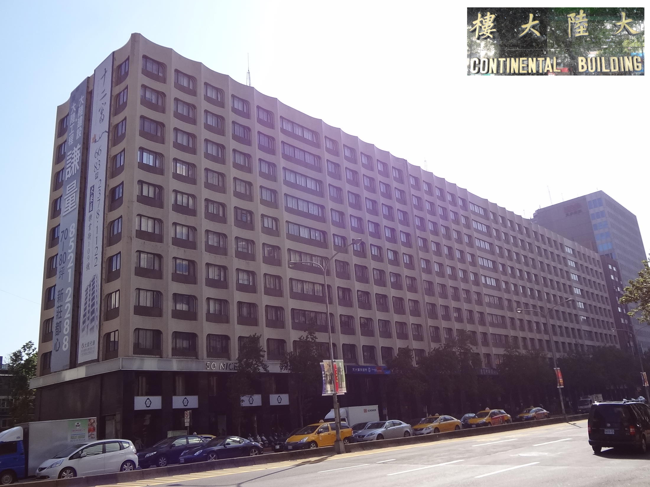 Tourism Bureau, MOTC at Continental Building 中文（台灣）: 交通部觀光局所在的大陸大樓，位於臺北市大安區忠孝東路四段